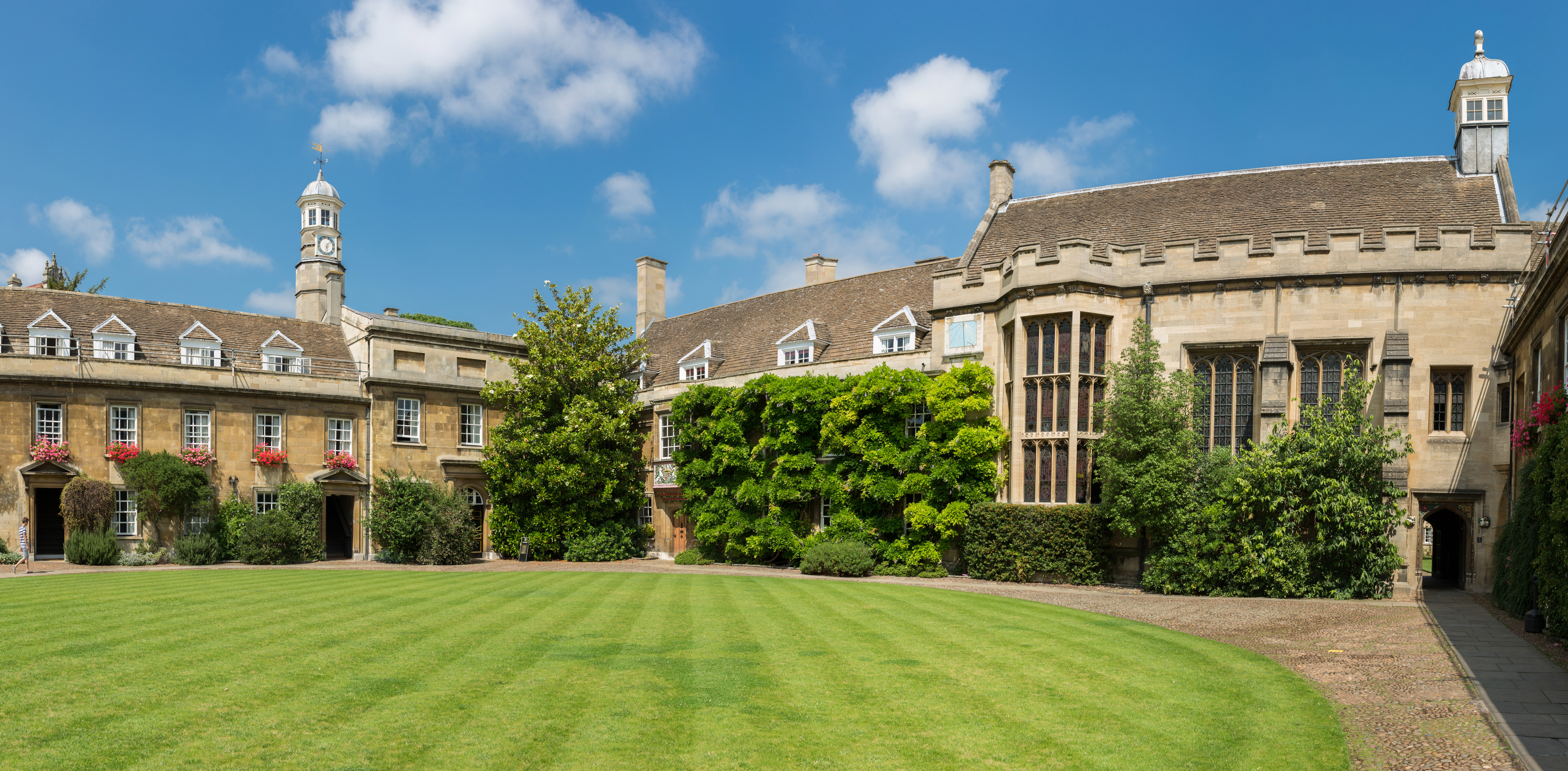 First Court of Christ's College, Cambridge, England.